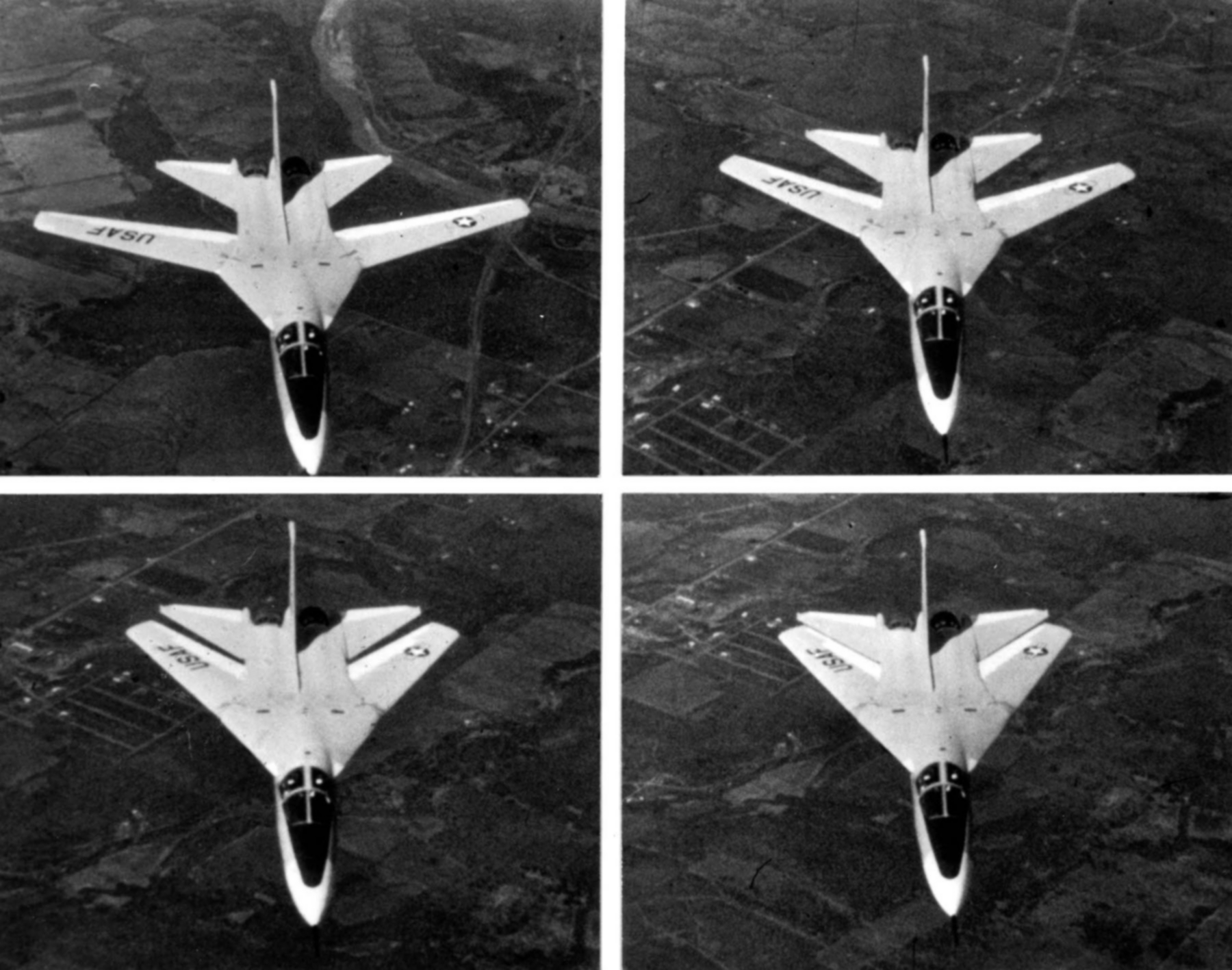 Four-photo sequence showing the wing sweep of a U.S. Air Force General Dynamics F-111A.